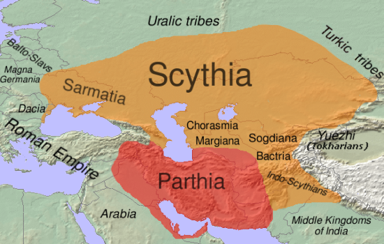 Historical spread of Iranian peoples/languages: Scythia, Sarmatia, Bactria and the Parthian Empire in about 170 BC (evidently before the Yuezhi invaded Bactria). Modern political boundaries are shown to facilitate orientation.